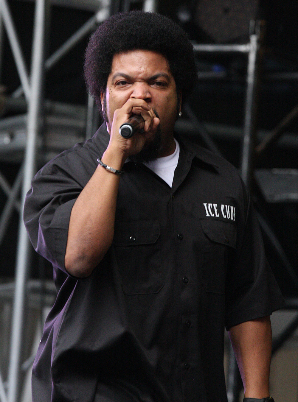 Ice Cube Performs at Supafest 3 Sydney, Australia 2012.